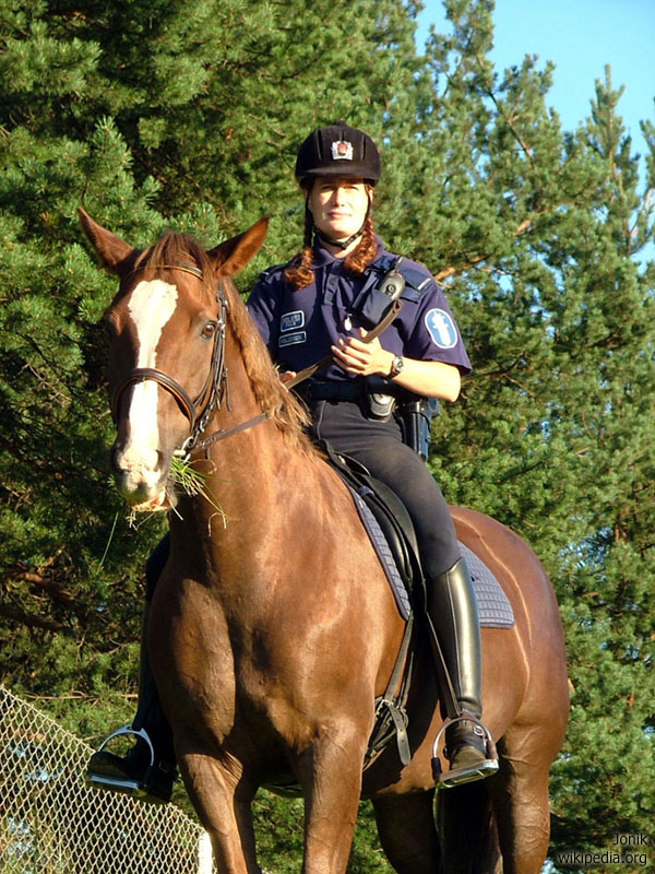 A mounted police officer at "KontuFestari", a free festival happening in Kontula, one of Helsinki's eastern suburbs, in August 2004. The horse indulges in eating the long grass growing on a small hill.